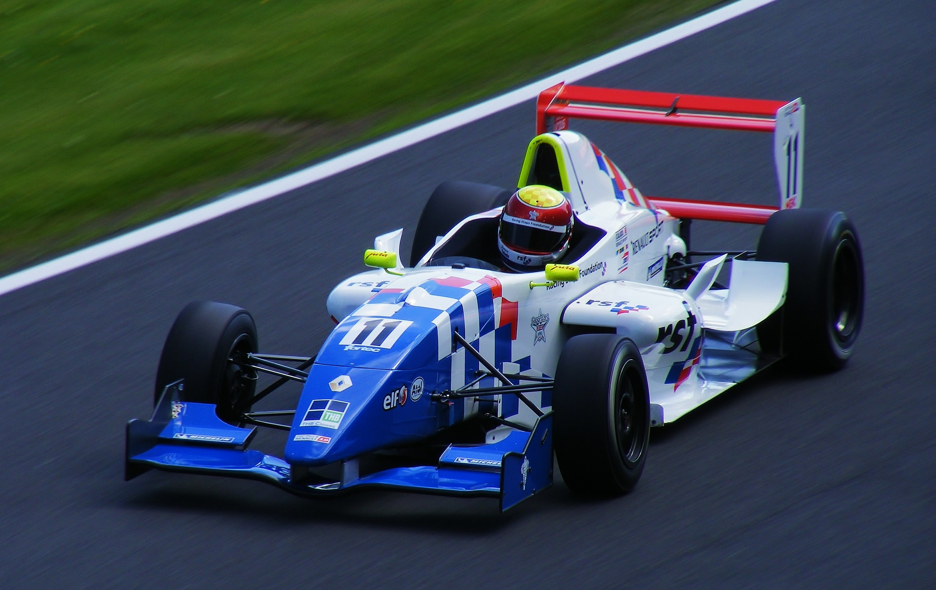 James Calado climbs Clay Hill at Oulton Park during a qualifying session.